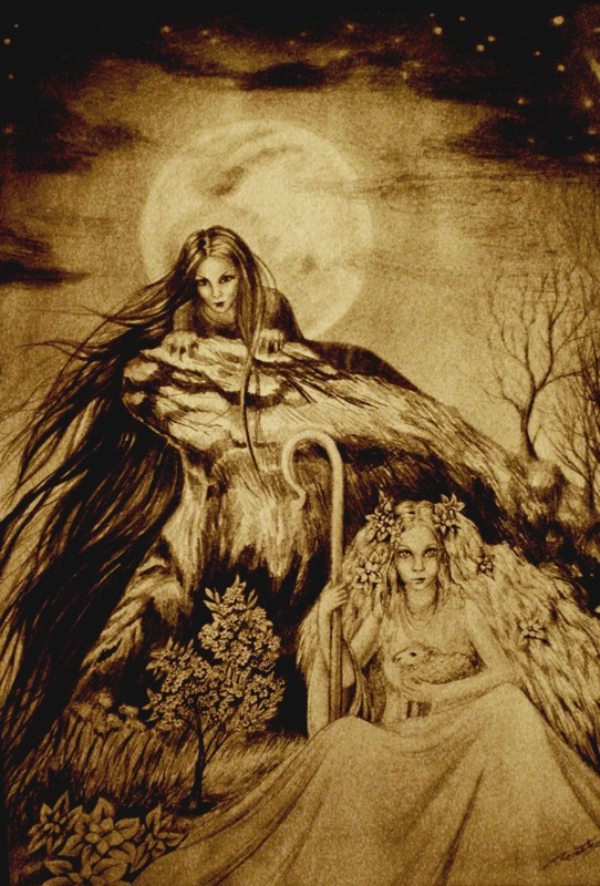 Morana & Vesna